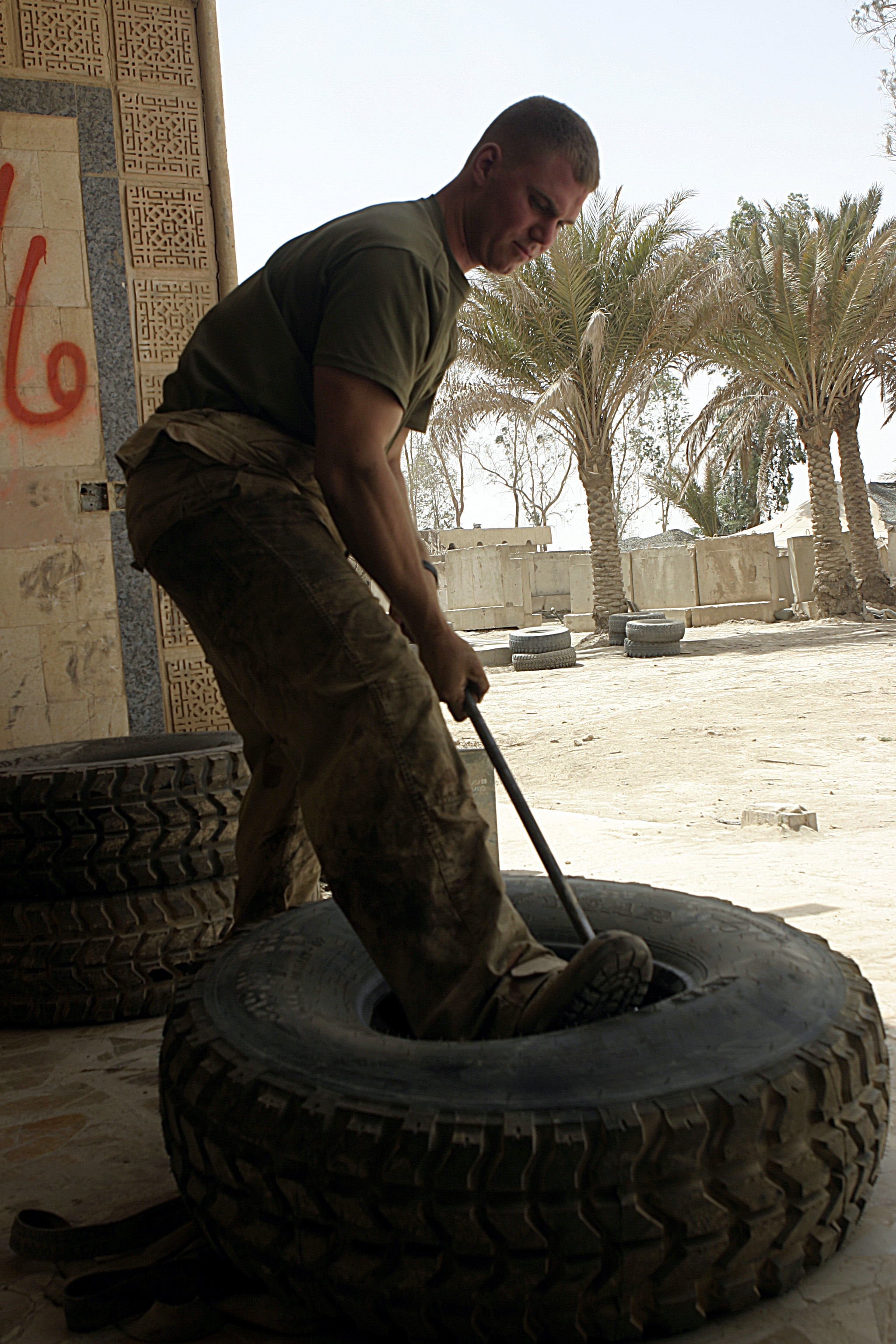 CAMP BAHARIA, Iraq - Lance Cpl. Joe Plank, an operator with 1st Battalion, 6th Marine Regiment's motor transport section, installs a run-flat low-profile tire at the tire shop here June 8. The battalion's Motor 'T' Marines service several military trucks' engines, transmissions and electric systems, along with freighting fuel and water to locations throughout the camp and Fallujah.